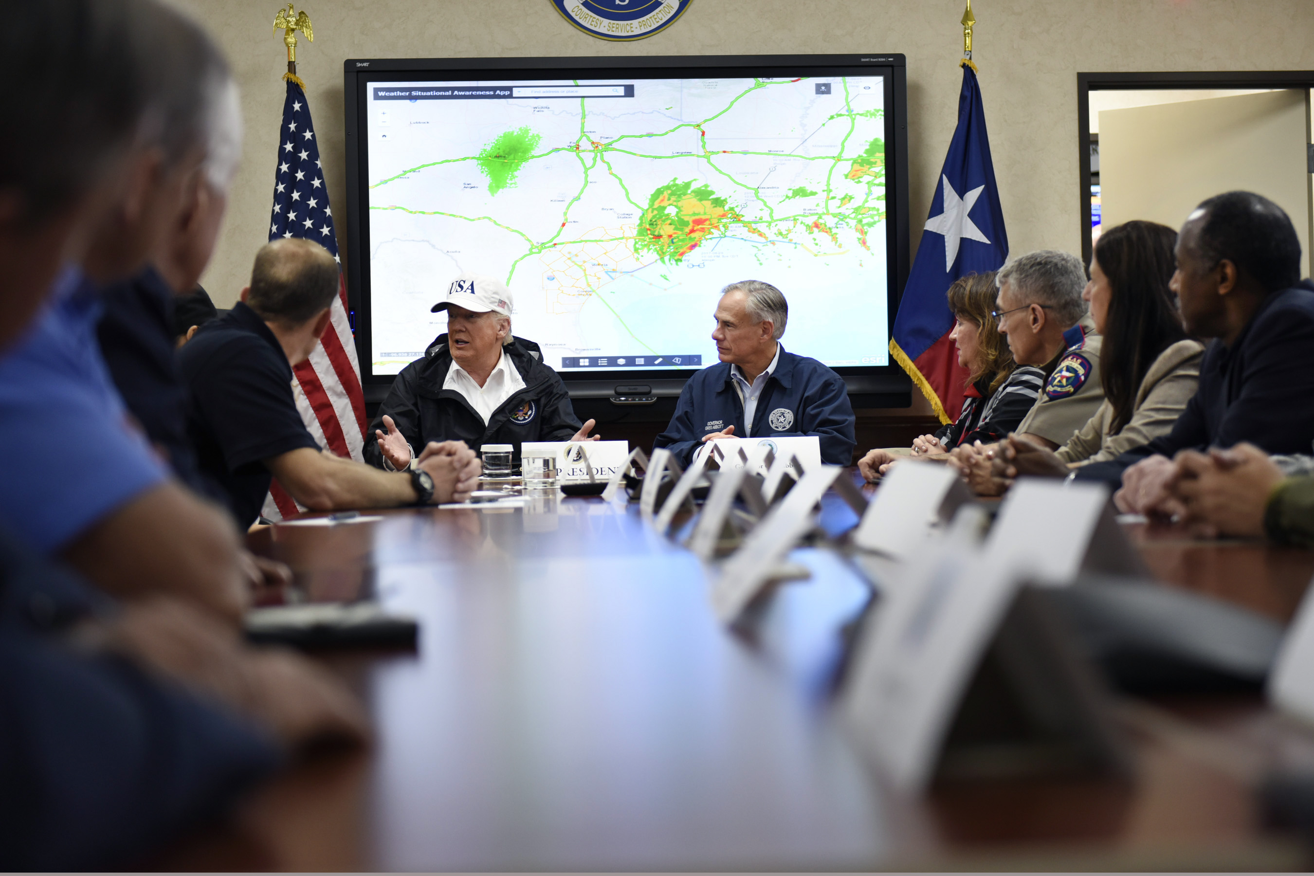 AUSTIN, Texas - President Donald J. Trump, First Lady of the United States Melania Trump Governor Greg Abbott of Texas, Acting Secretary of Homeland Security Elaine Duke, and Federal Emergency Management Agency Administrator Brock Long meet with personnel working at the Emergency Operations Center in Austin, Texas, Aug. 29, 2017. President Trump and Administrator Long thanked personnel at the center for their hard work in response to Hurricane Harvey. Official DHS photo by Barry Bahler.